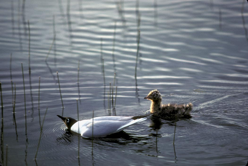 A photograph of a Bonaparte's Gull with its chick.